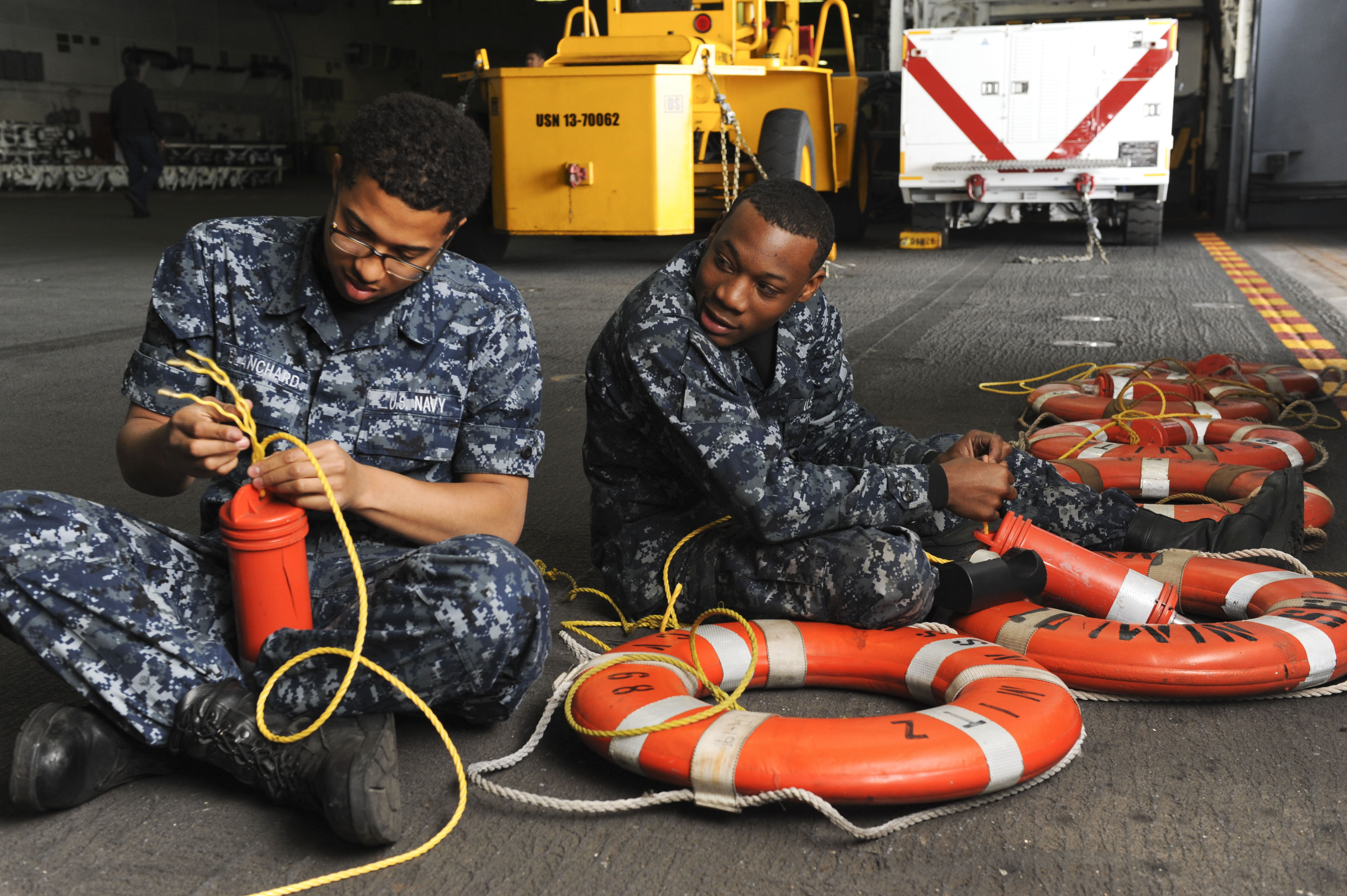 PACIFIC OCEAN (June 13, 2012) Seamen Darion Palmer and Charles Blanchard, both from Gary, In., and assigned to the aircraft carrier USS Nimitz (CVN 68), attach distress marker lights to flotation devices used in the event of a man overboard. Nimitz recently got underway to participate in the annual Rim of the Pacific Exercise (RIMPAC), the world’s largest international maritime exercise. (U.S. Navy photo by Mass Communication Specialist Ryan J. Mayes/Released) 120613-N-RC246-051 Join the conversation navylive.dodlive.mil